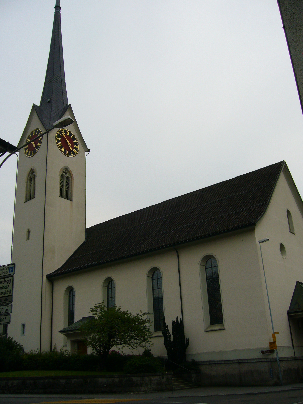 Church in Wald, village in the canton of Zurich, Switzerland. Picture taken by Peter Berger, July 22, 2006.